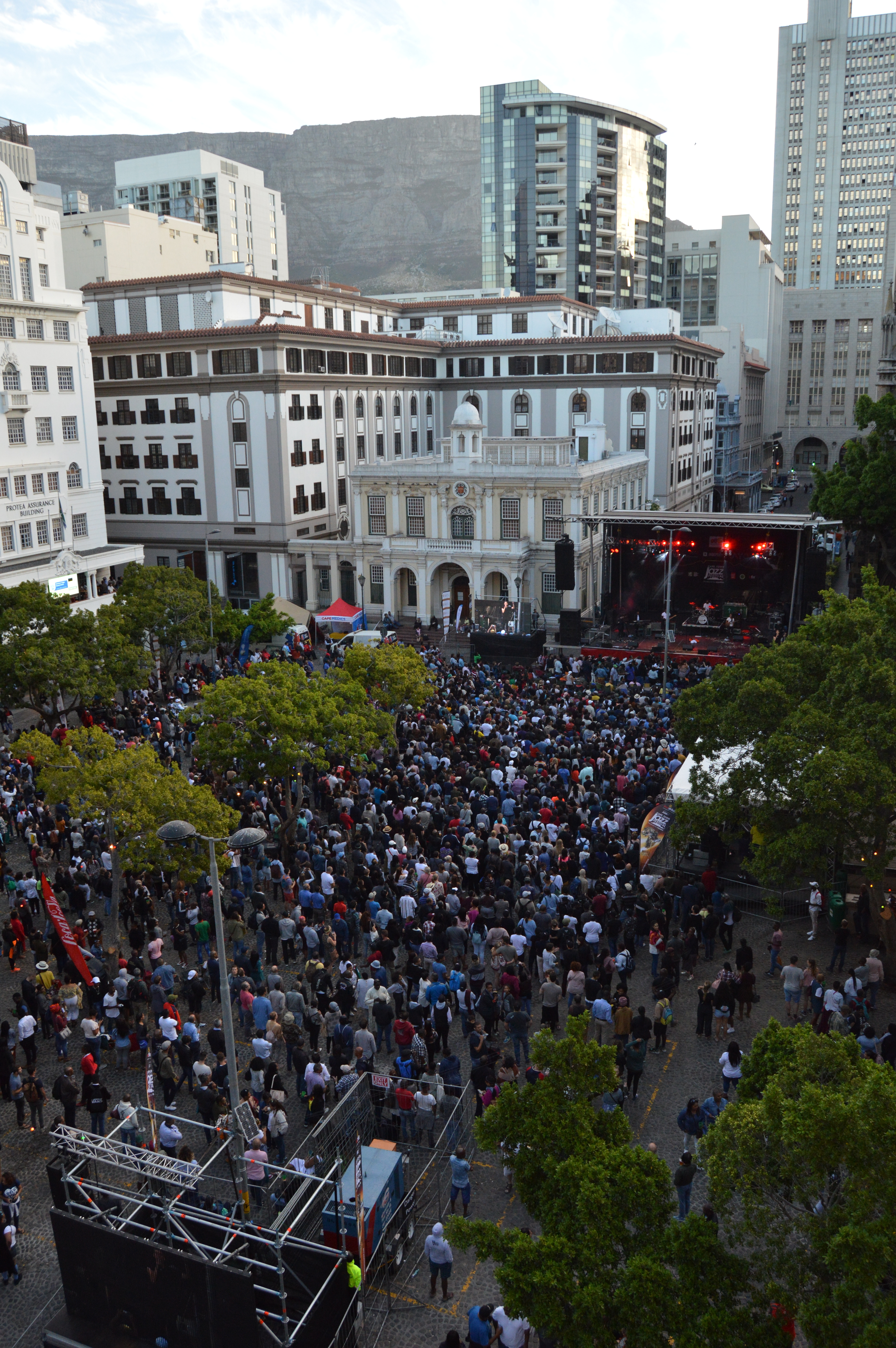 Cape Town International Jazz Festival 2018. The free pre- concert given at Greenmarket Square.